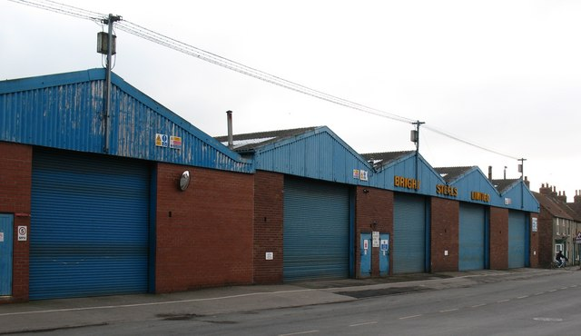 Bright Steels Ltd One of the main employers in Norton and Malton is Bright Steels Ltd, who [according to their website] are the largest producers of bright drawn steel flats in England. The company employs around 70 people.